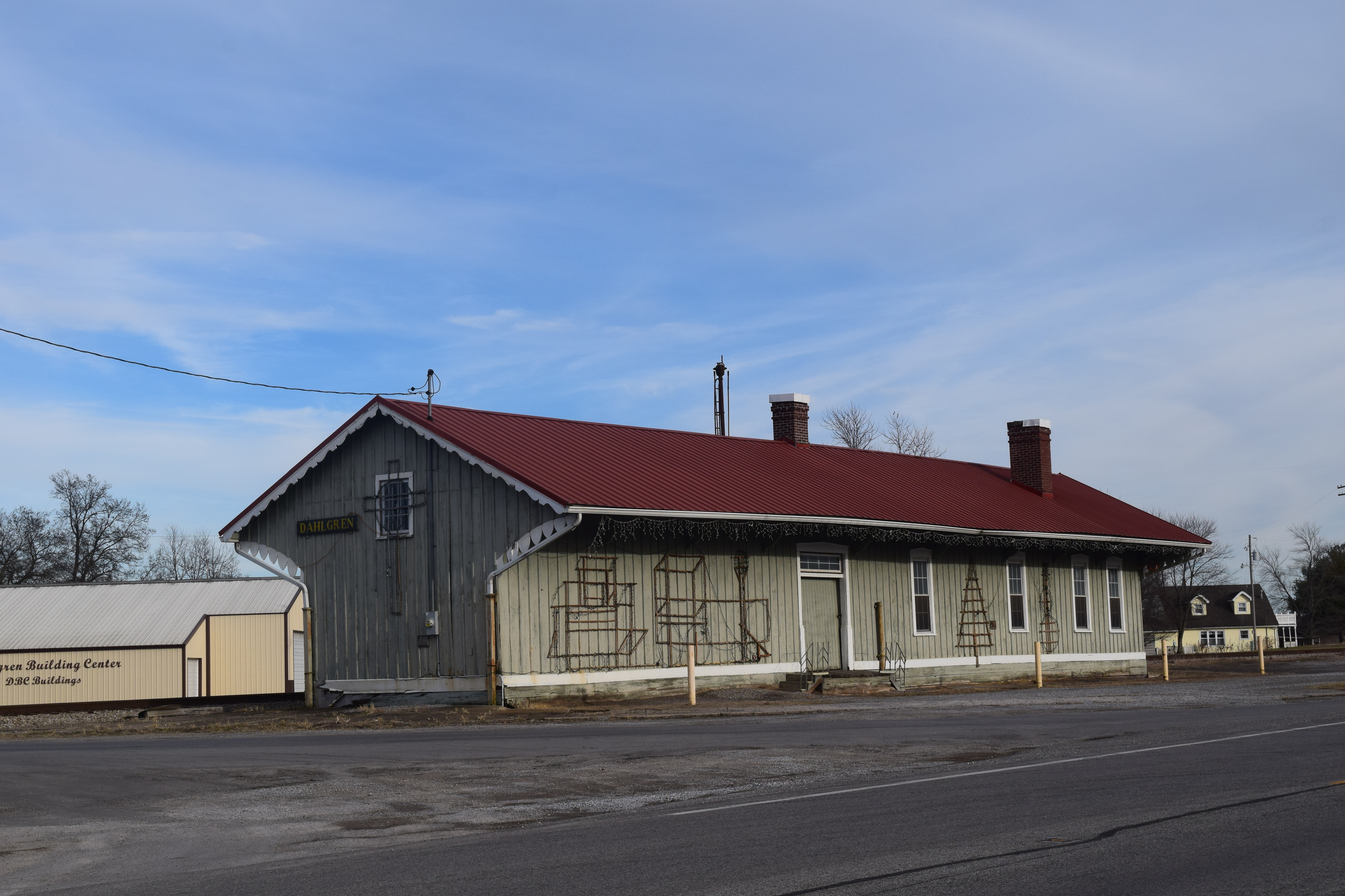 The former railroad depot in Dahlgren, Illinois.